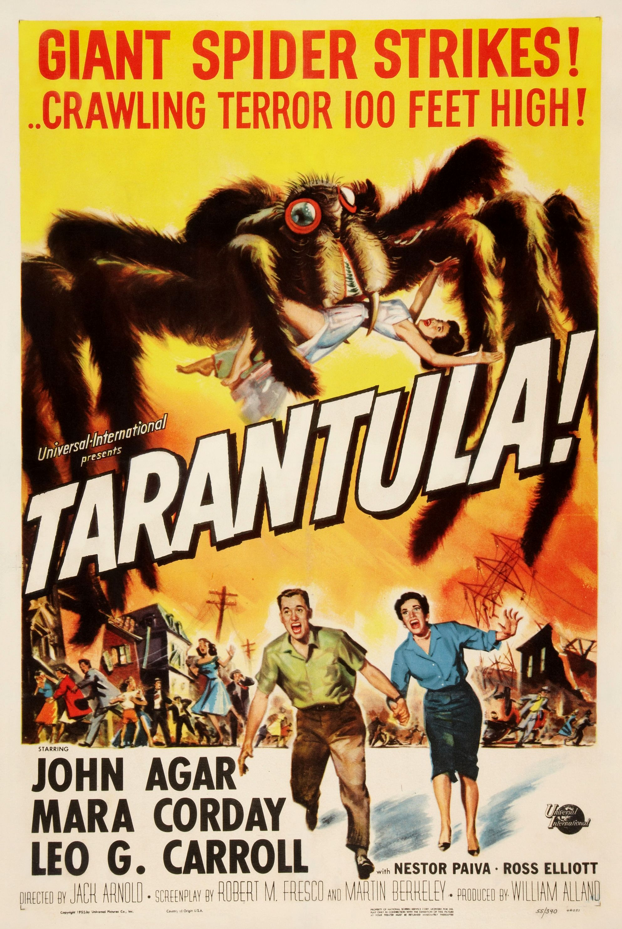 Movie poster advertisement for Tarantula (1955).